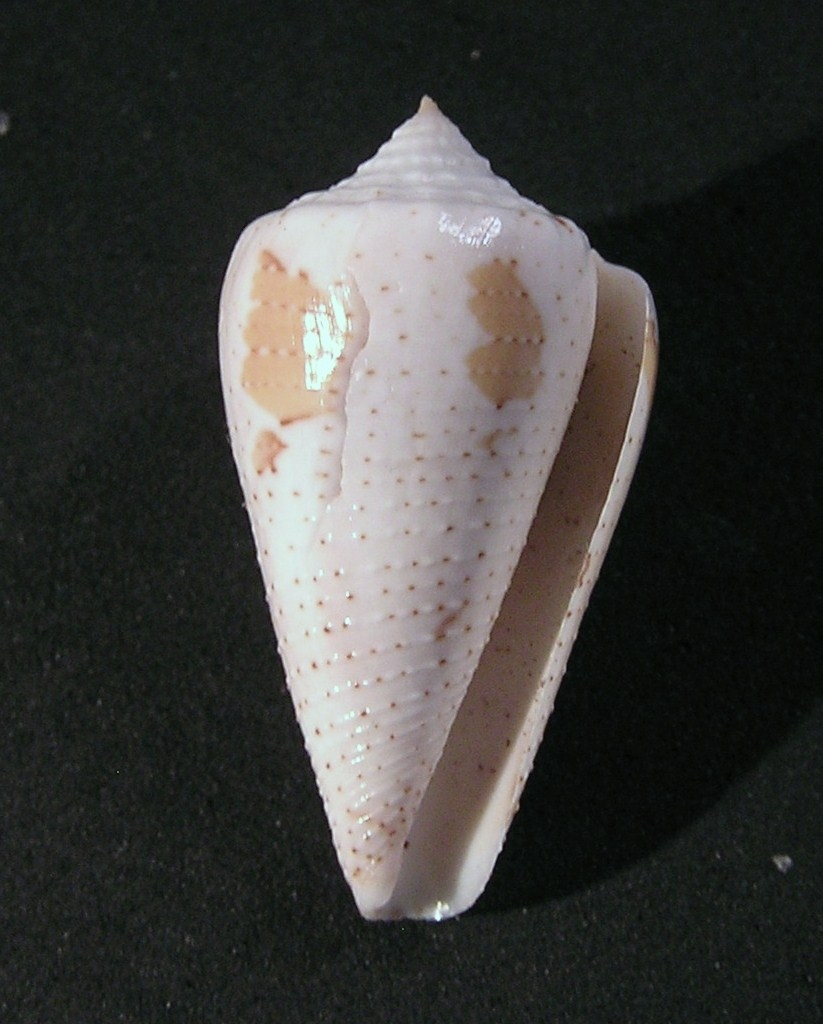 Conus cedonulli Linnaeus, 1758 (synonym: Conus dominicanus Hwass in Bruguière, 1792); Grenada